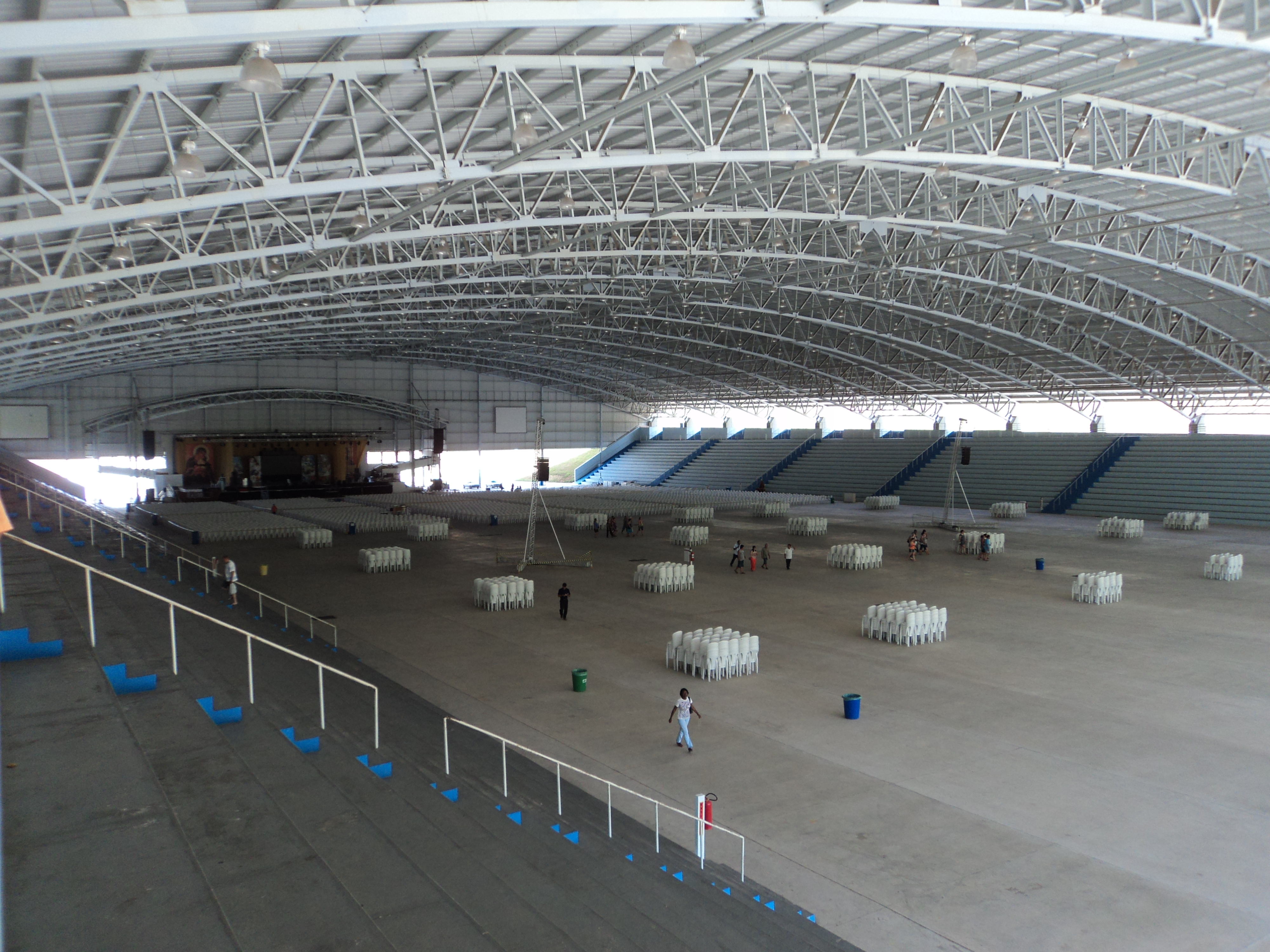 The interior of the Centro de Evangelização da Canção Nova, in Cachoeira Paulista, São Paulo, Brazil.